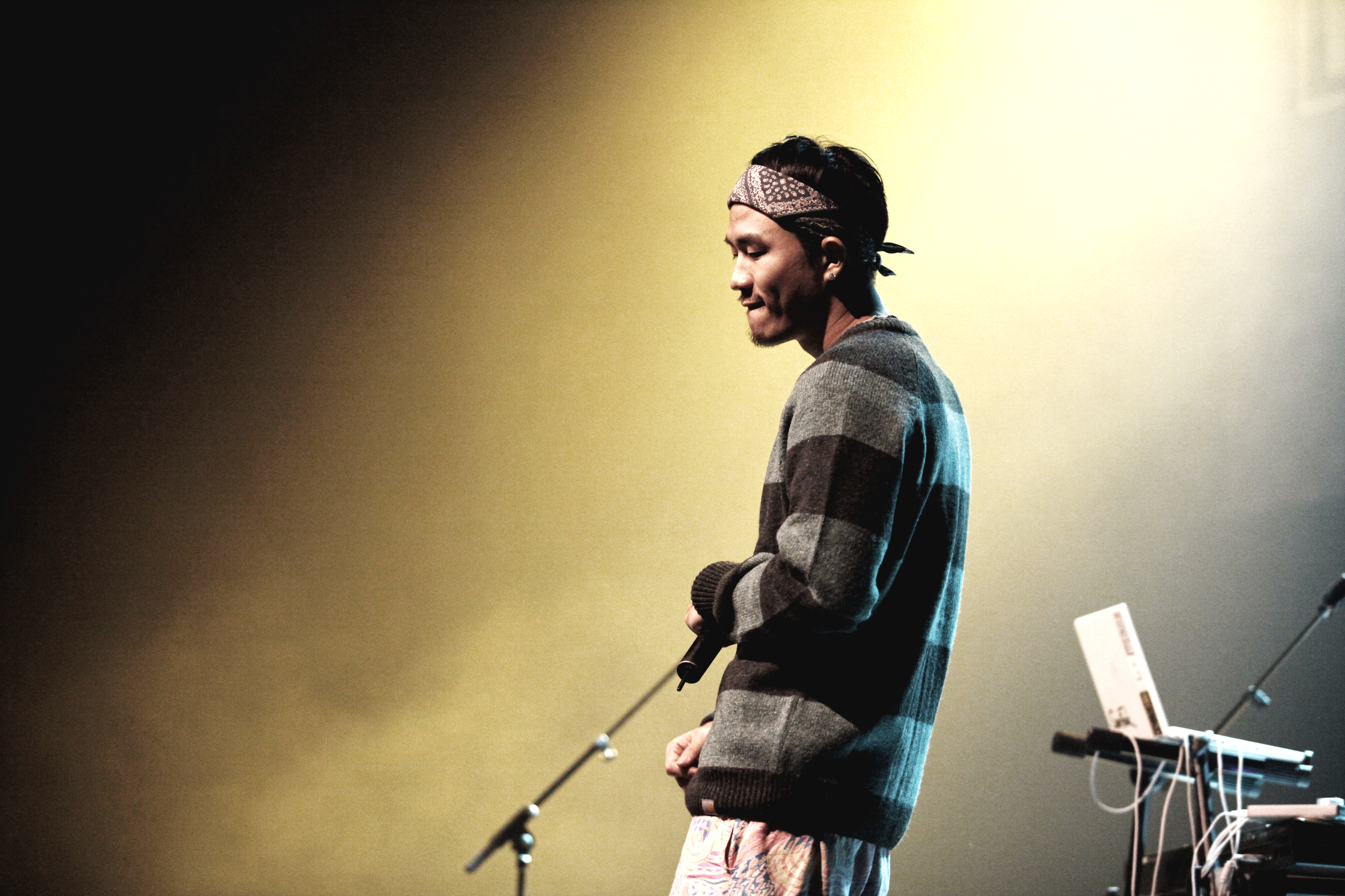 JINBOtheSuperFreak @ F.OUND week